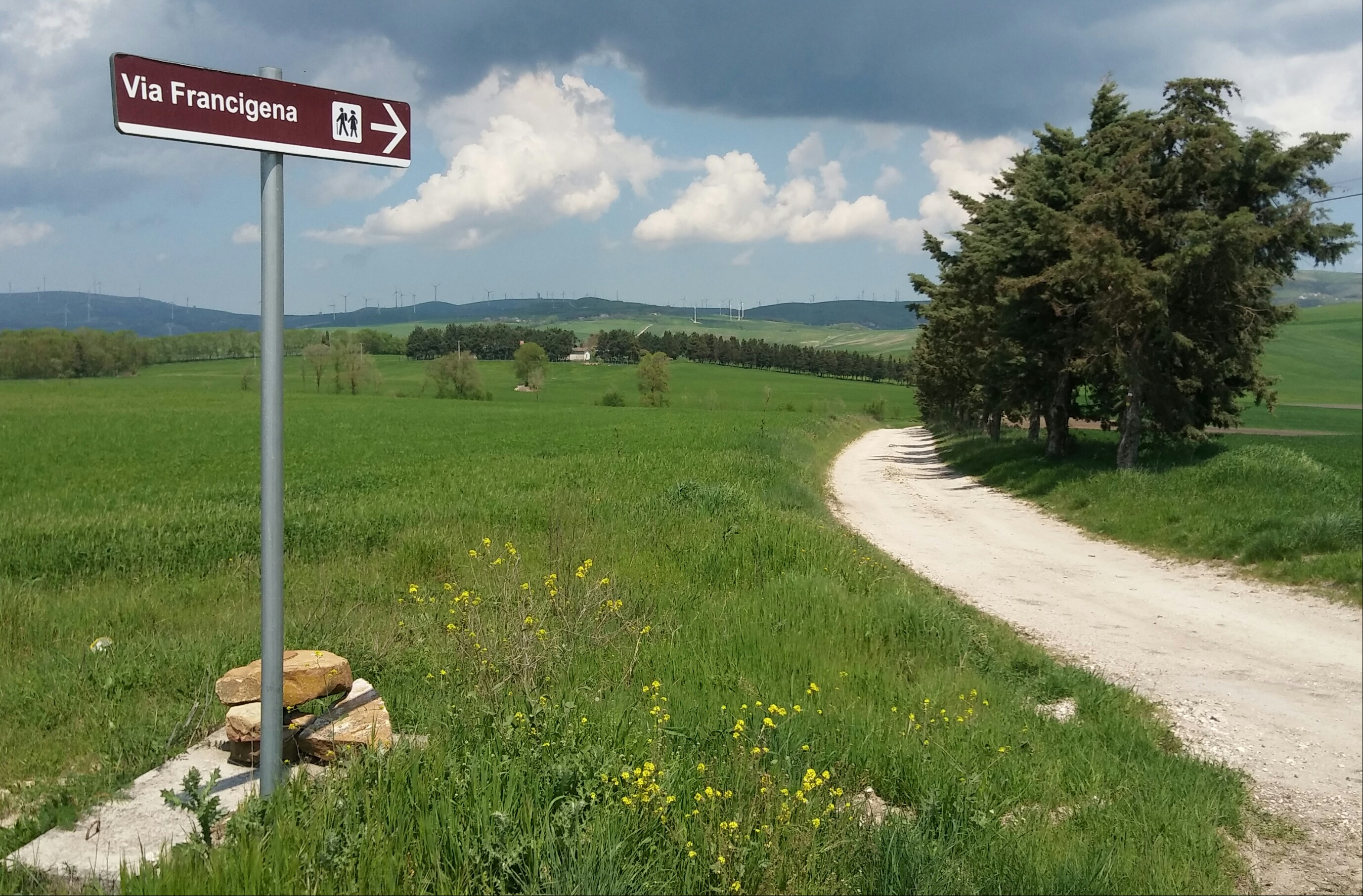 Via Francigena in Ariano Irpino, amidst Sprinia highlands